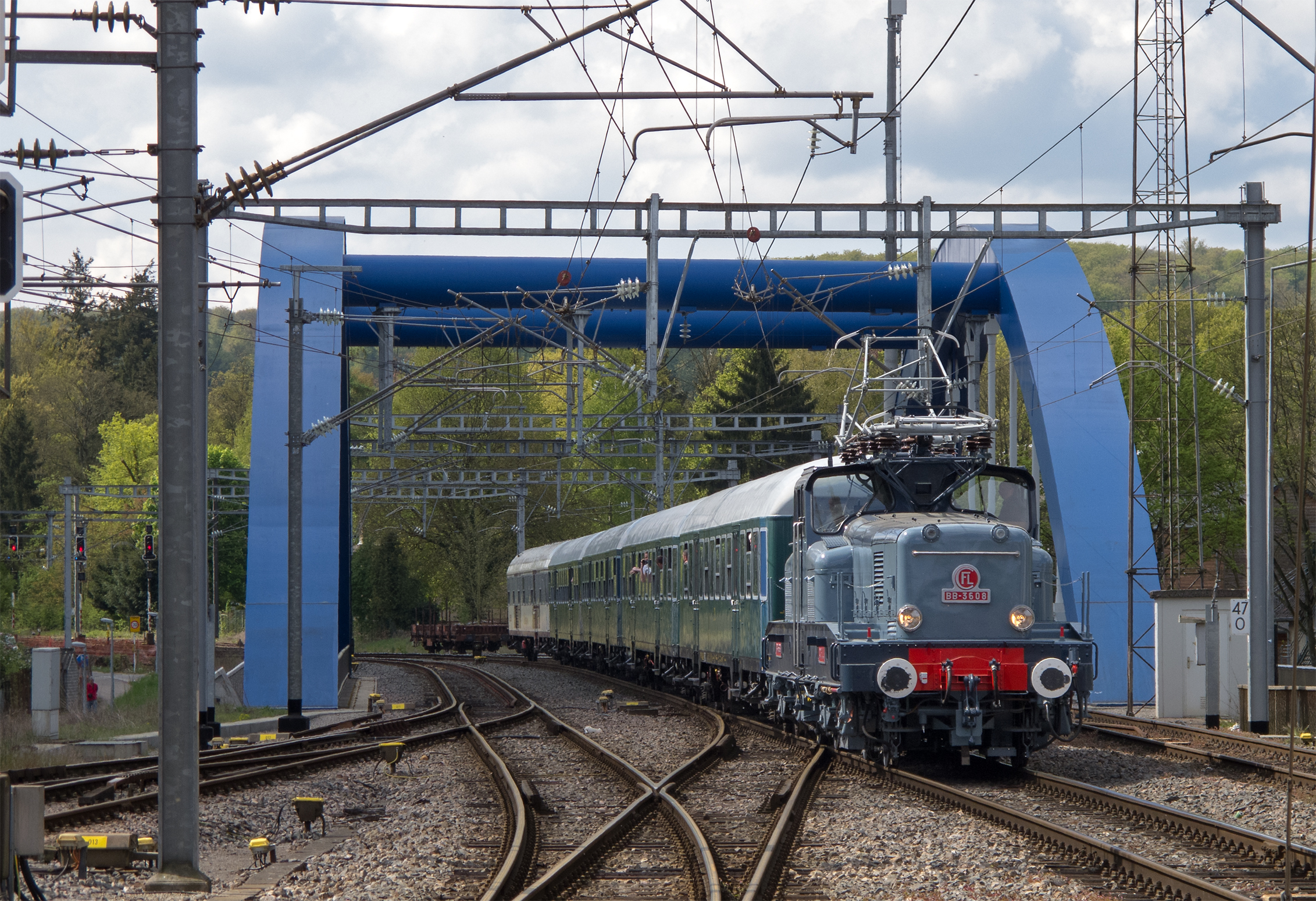 CFL 3608 shortly before arriving into the Ettelbruck station